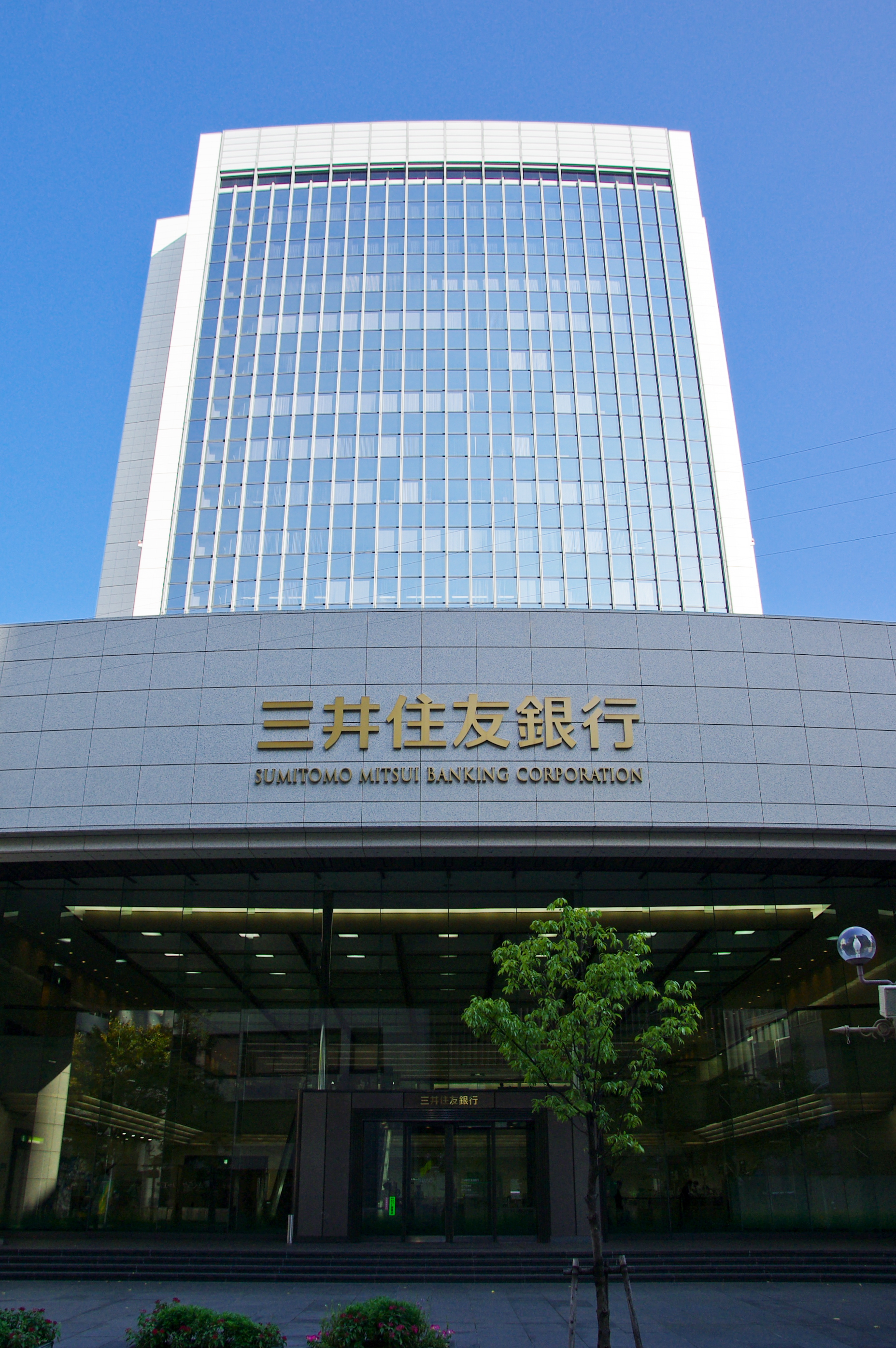 Photograph of Sumitomo Mitsui Banking Corporation Kobe Office Building in Chuo-ku, Kobe, Hyogo Prefecture, Japan.